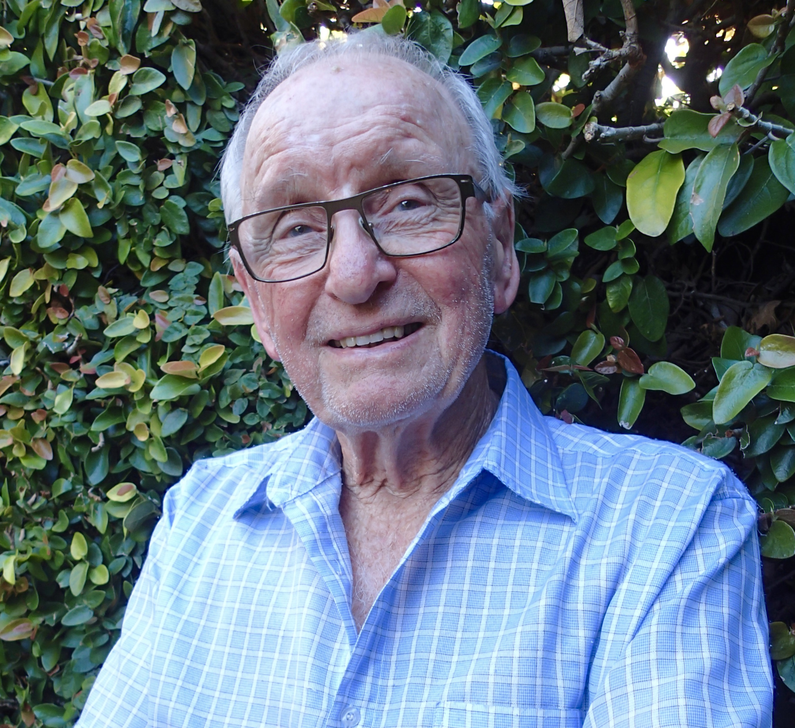 Maurice Gee by Emily Gee